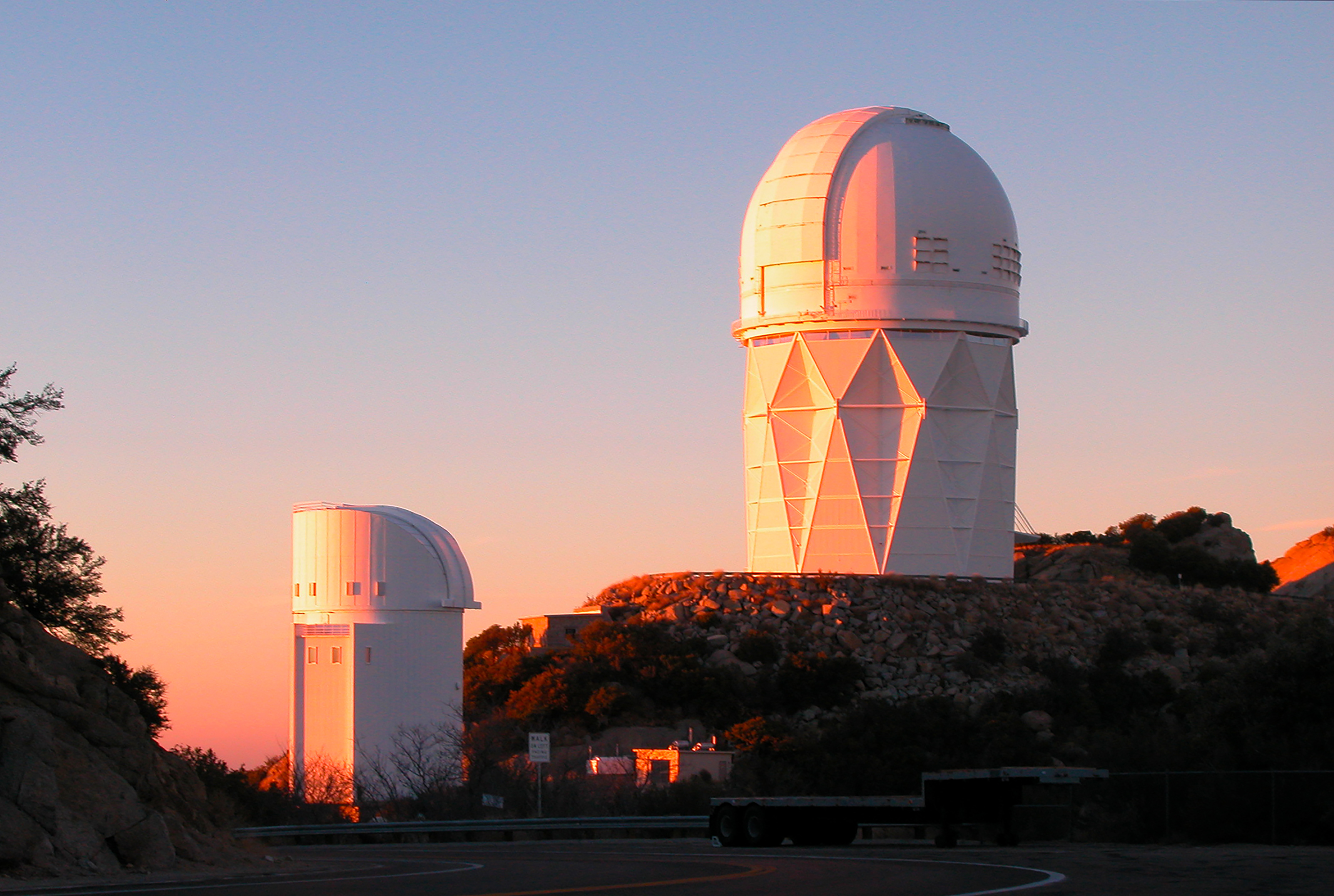 2.3m & 4m telescopes at Kitt Peak National Observatory at dusk